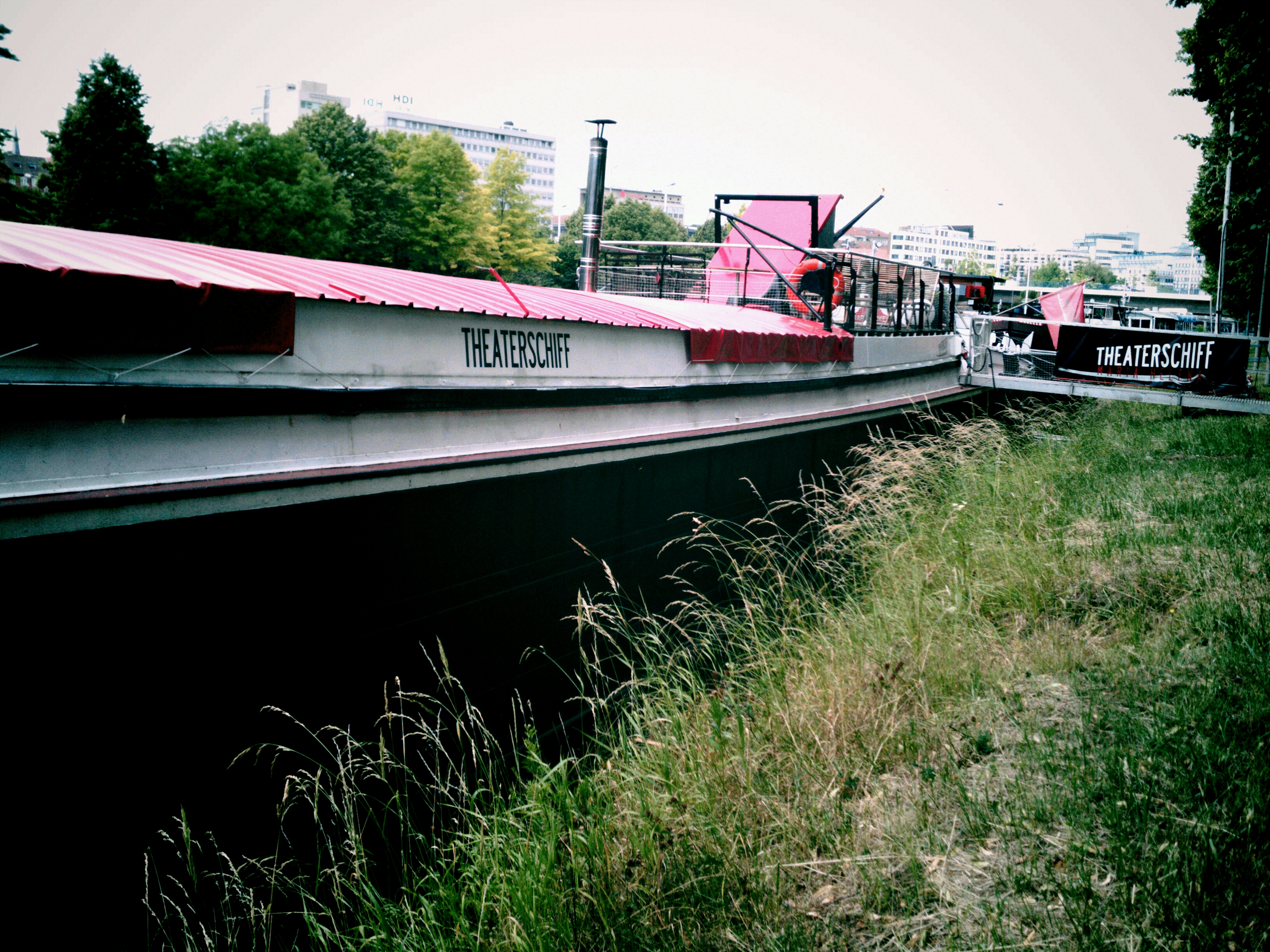 The Theatre ship “Maria Helena” on the River Saar in Saarbrücken